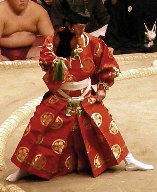 A sumo referee before the start of a bout, holding his gunbai or war fan towards the photographer